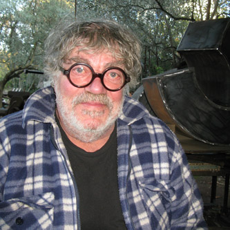 The French sculptor Beppo in his studio of Draguignan in November 2011.